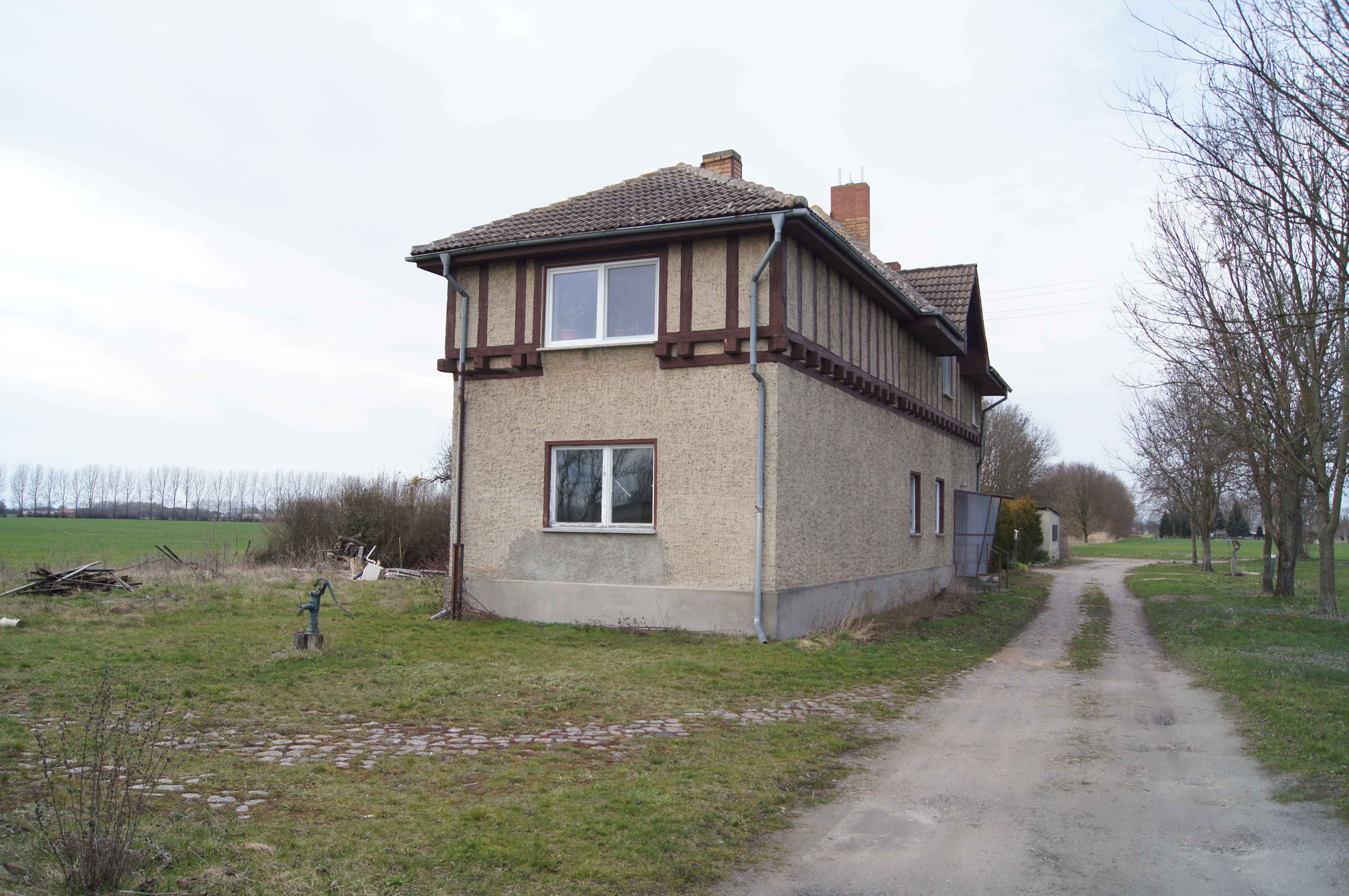 Former railway station Gross Neuendorf, Letschin, Brandenburg, Germany